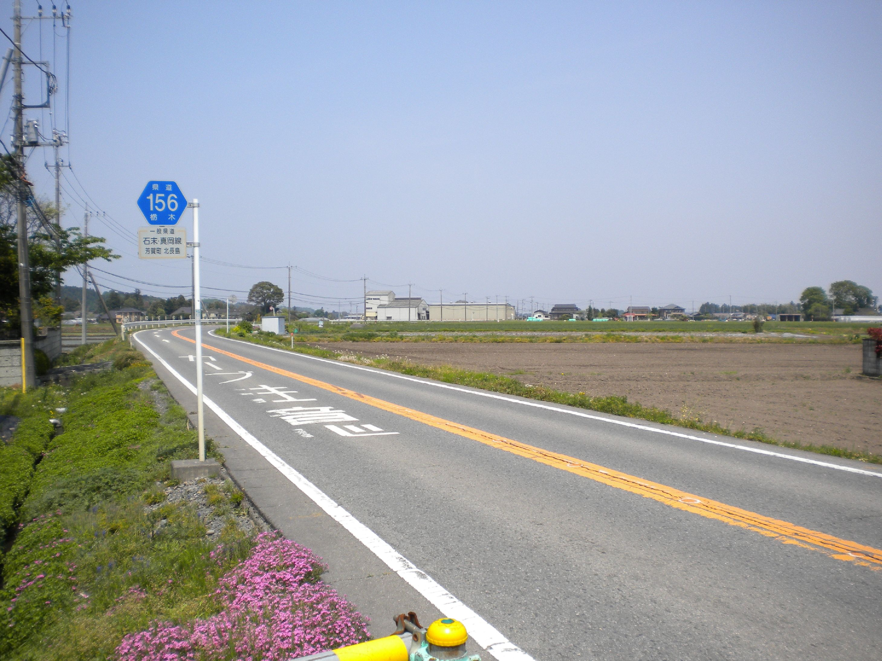 Tochigi prefectural road No.156 on Haga town